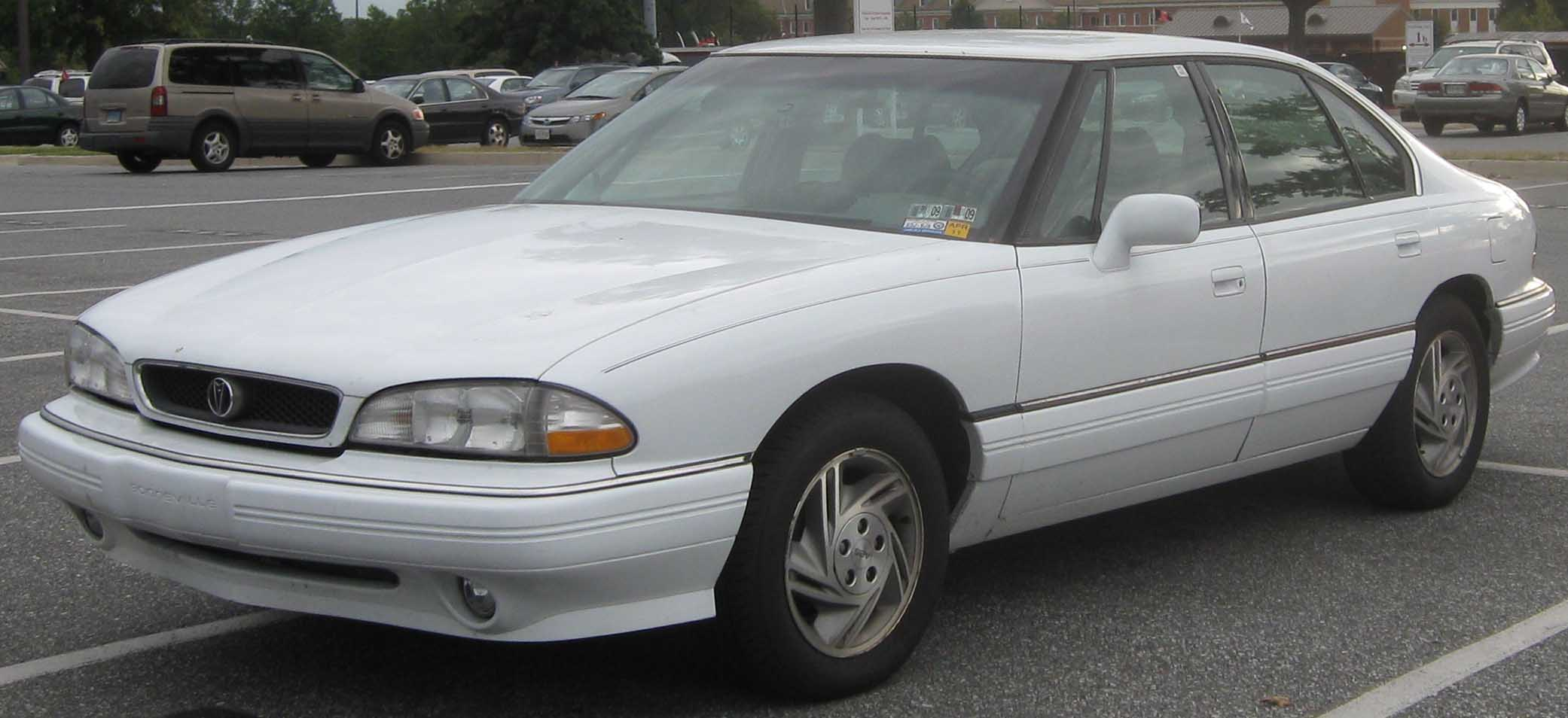 1992-1993 Pontiac Bonneville photographed in College Park, Maryland, USA.